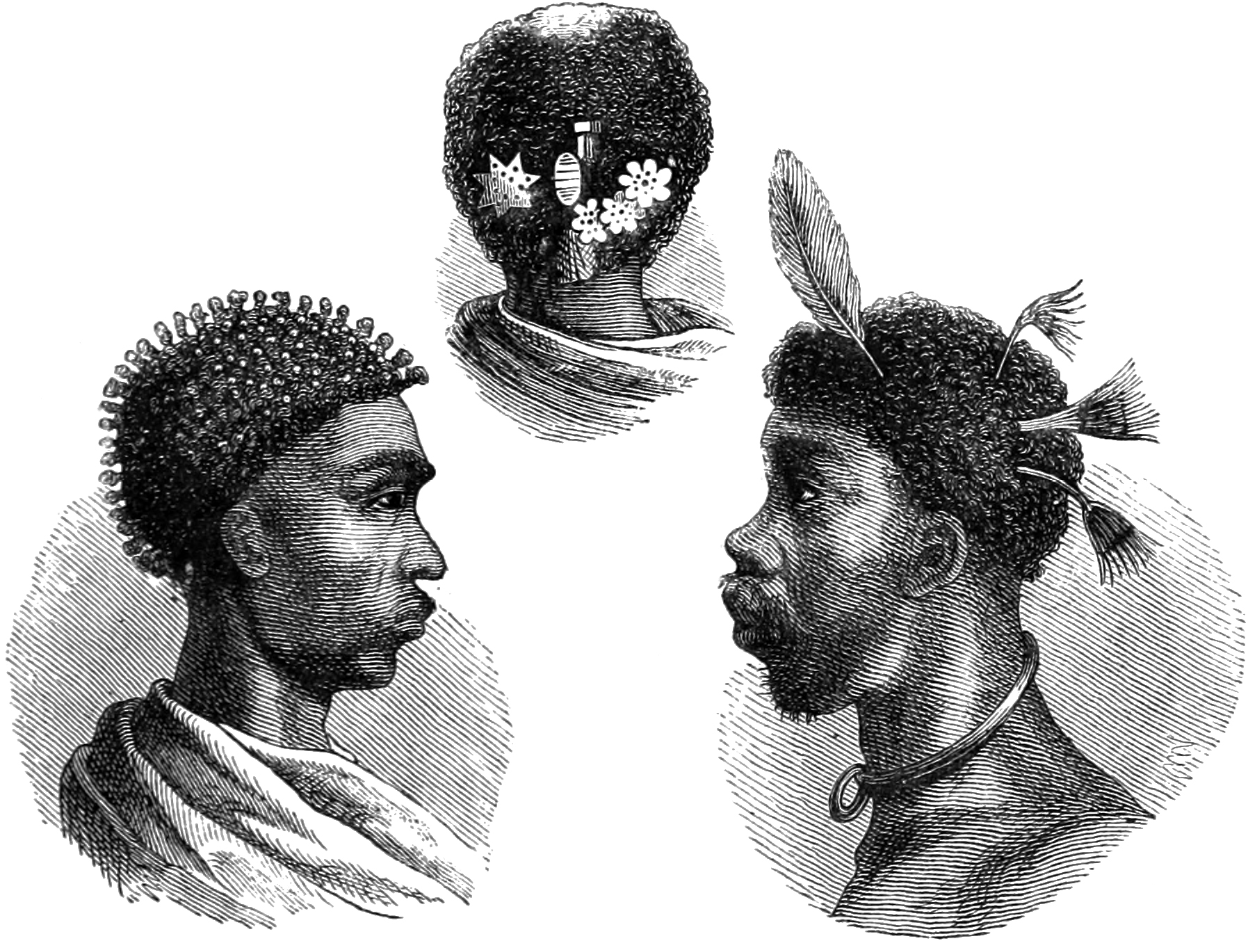 Types of Marutse, from the book Seven Years in South Africa, volume 2, page 267